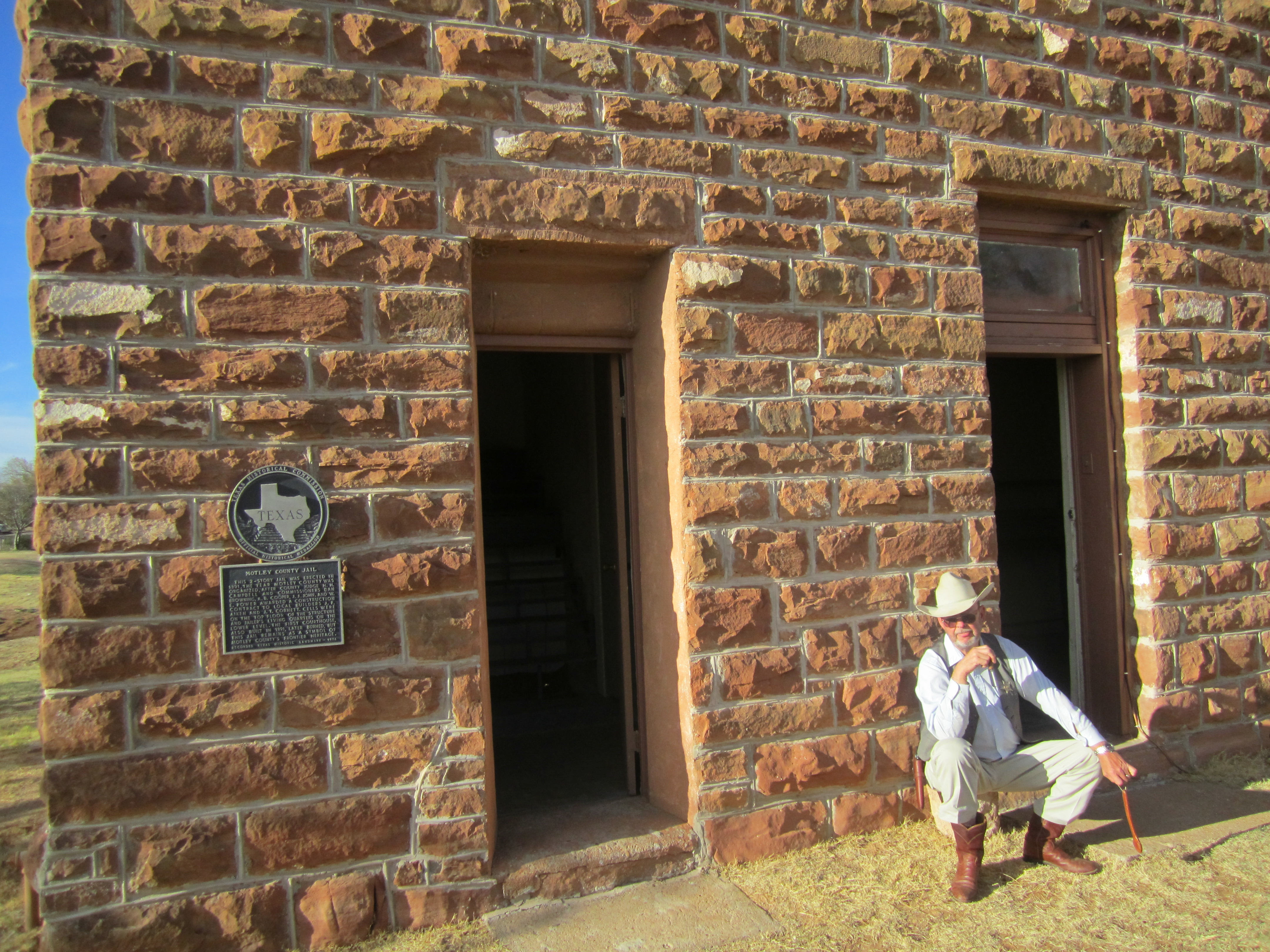 I took photo with Canon camera in Matador, TX.